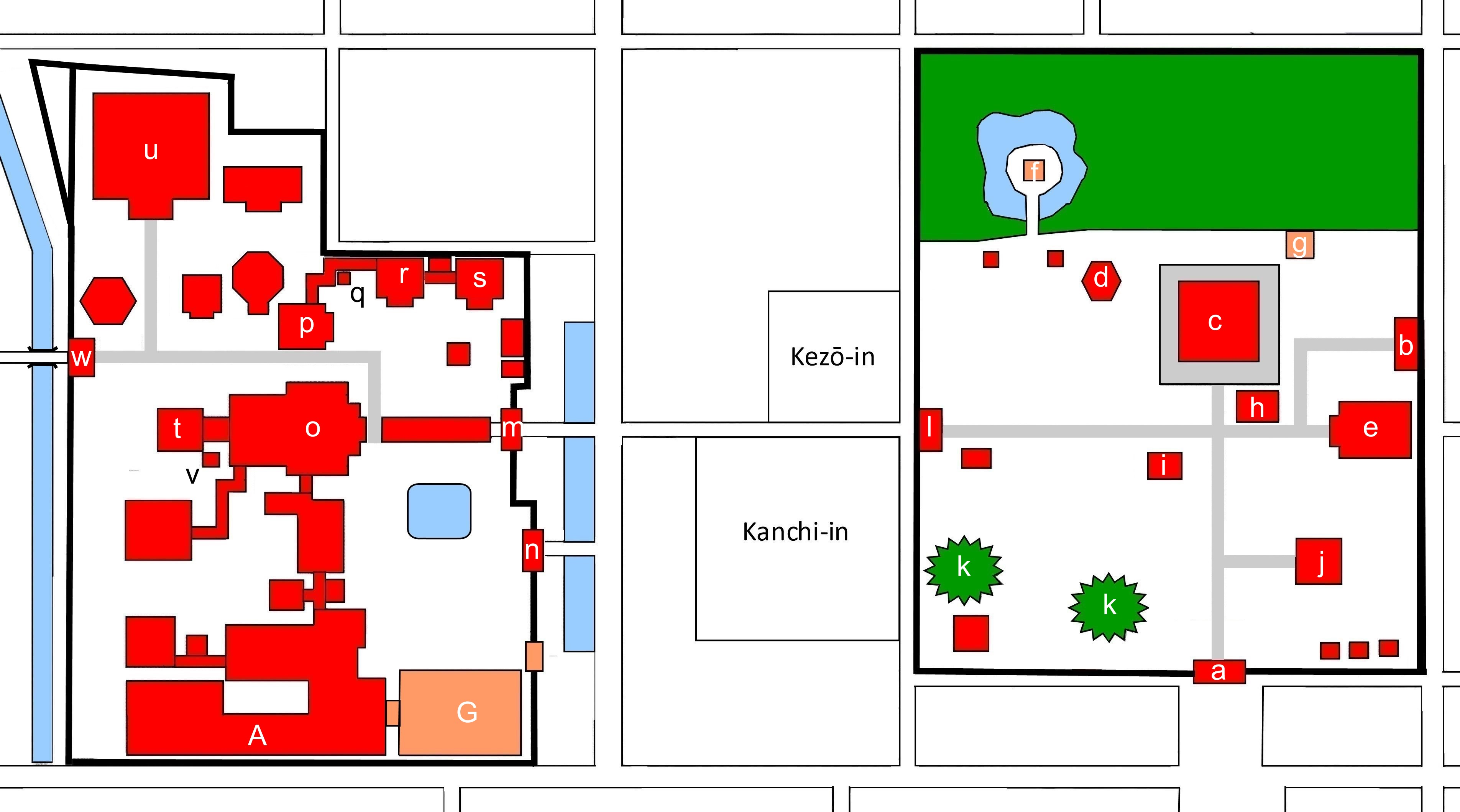 Layout of Zentsû-ji temple at Shikoku, Japan